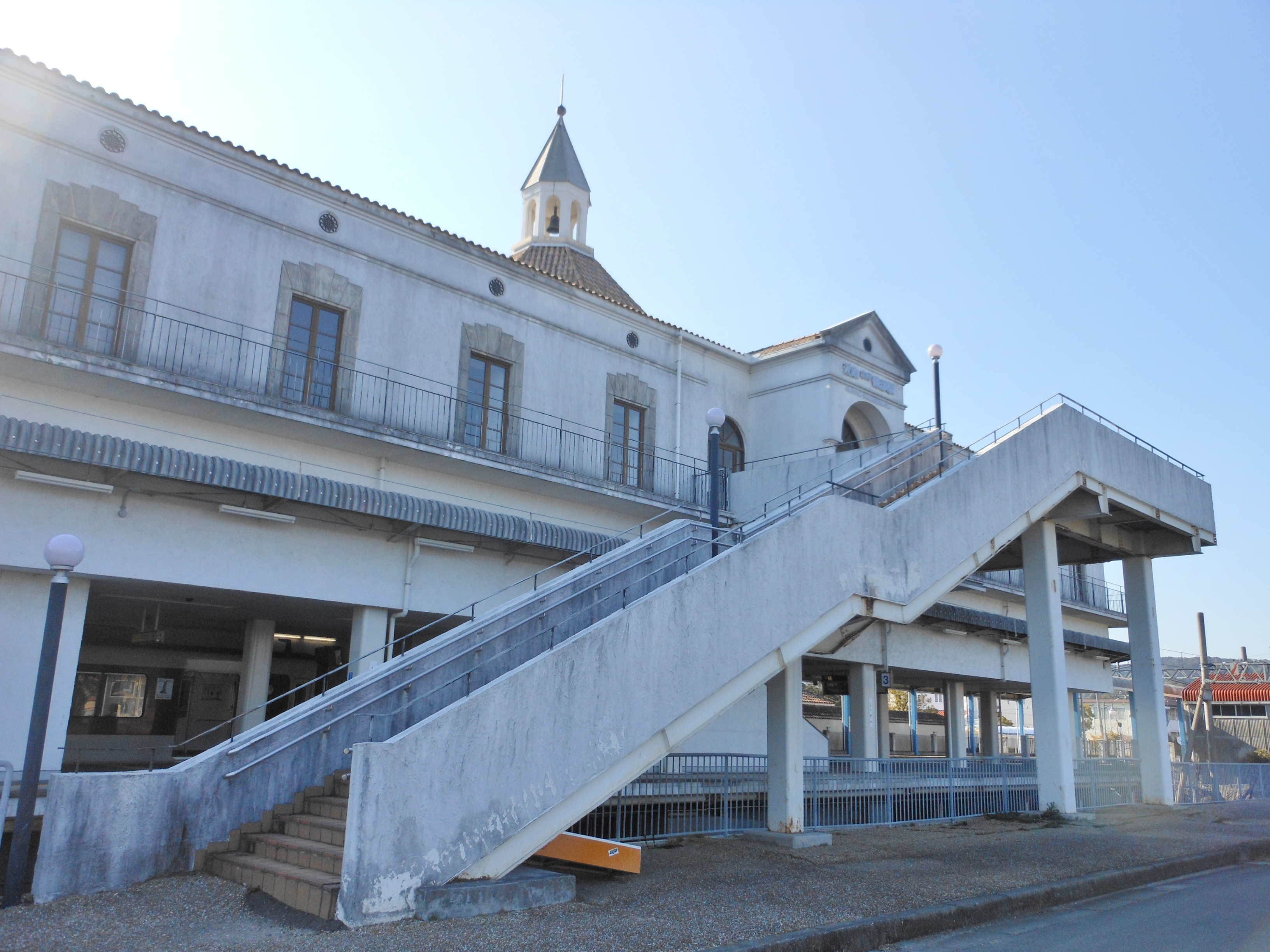 East exit of Shima-Isobe Station in Shima, Mie.